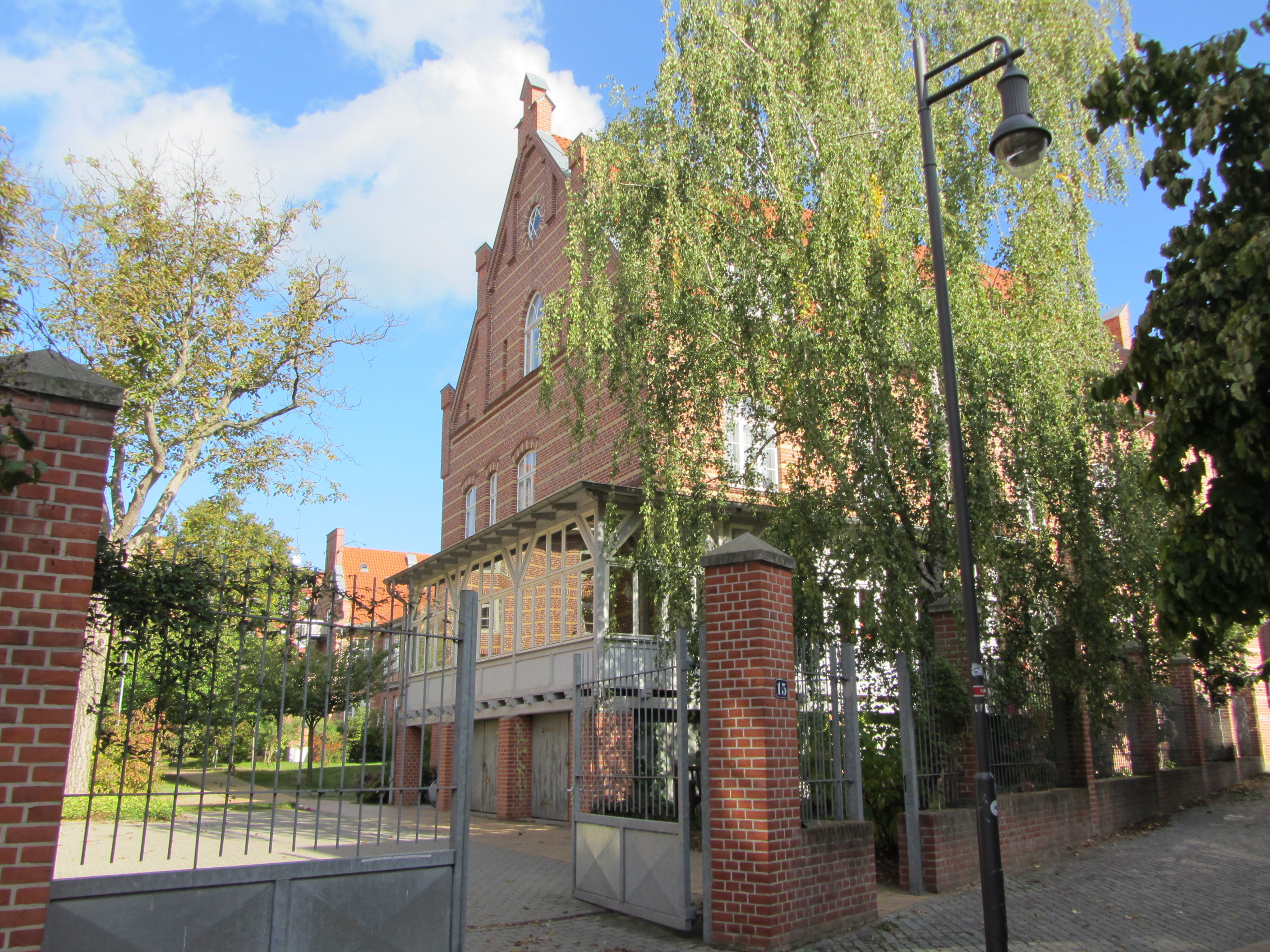 Augustenstift in Schwerin, Mecklenburg-Vorpommern, Germany